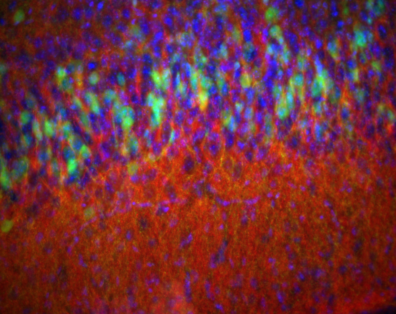 Title: Piriform cortex of a mouse Description: Piriform cortex from a 14 day old D2-eGFP (green) mouse stained for enkephalin (red) and DAPI (blue) to show nuclei. Epifluorescence. Categories: Research in NIH Labs and Clinics Type: Color, Photo Source: National Institutes of Health (NIH) Creator: Margaret I. Davis Date Created: Unknown Date Added: 5/24/2012 Reuse Restrictions: None - This image is in the public domain and can be freely reused. Please credit the source and/or author listed above.